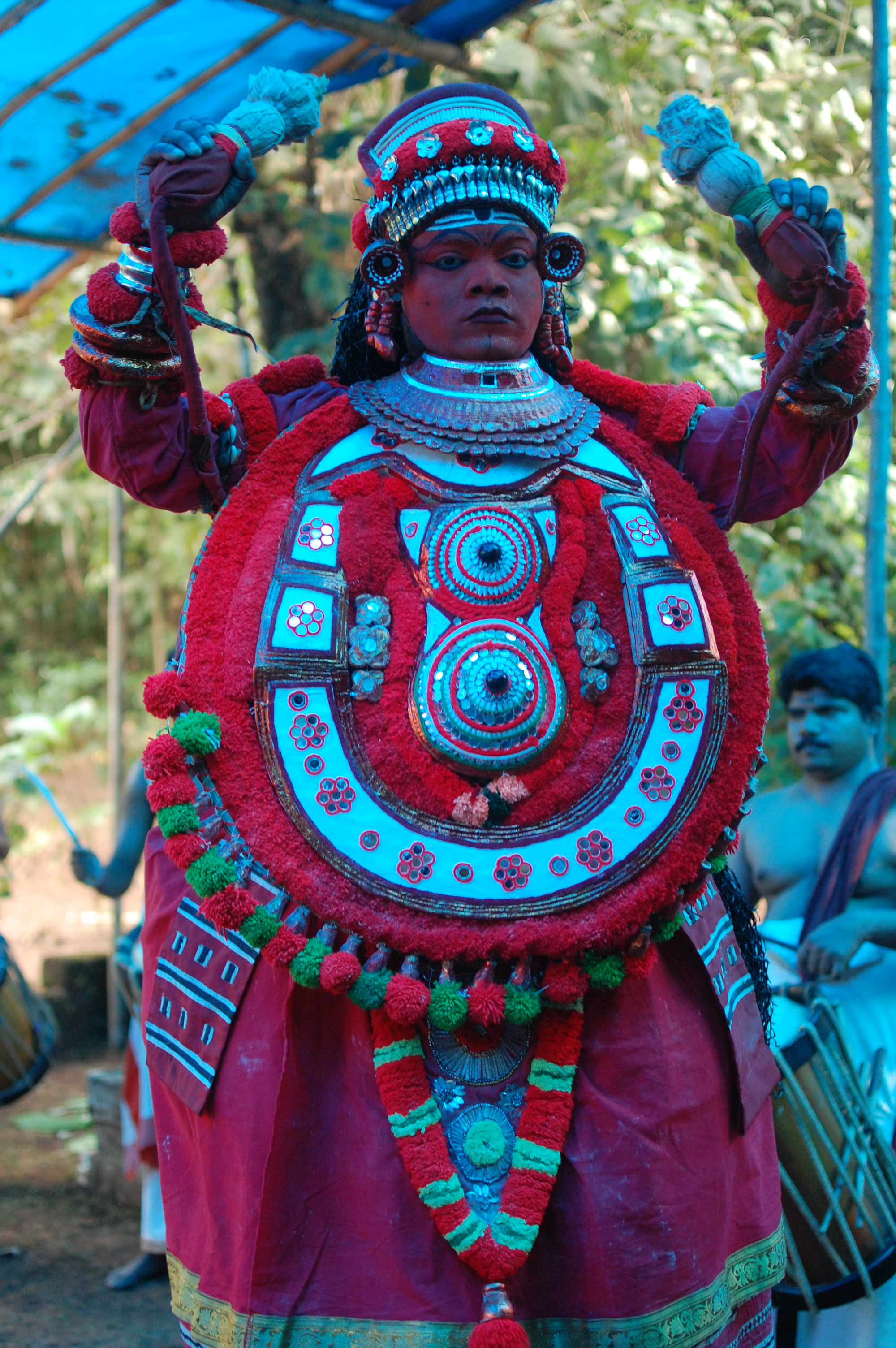 Vellattom of Gulikan Theyyam conducted at Puthiya Mundayat House, Azhikode, Kannur